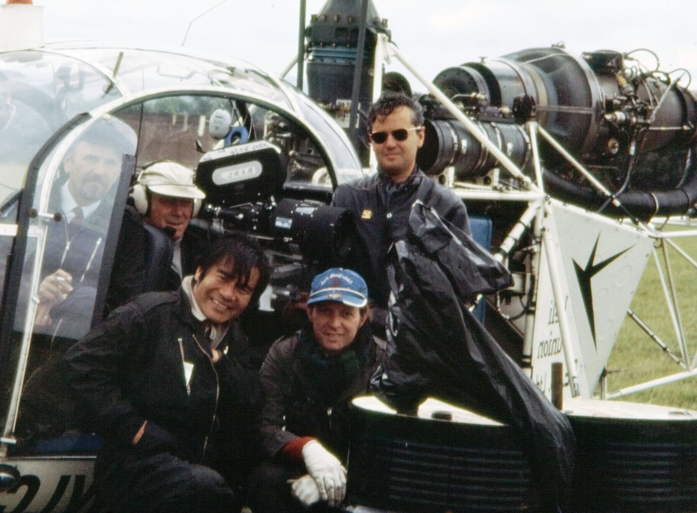 Lynn Garrison's Helicopter crew (Peter Peckowski and Peter Allwork in cockpit, Jimmy Murakami, Shay Corcoran and Lynn Garrison), during filming of Roger Corman's Richthofen & Brown, Ireland, 1970